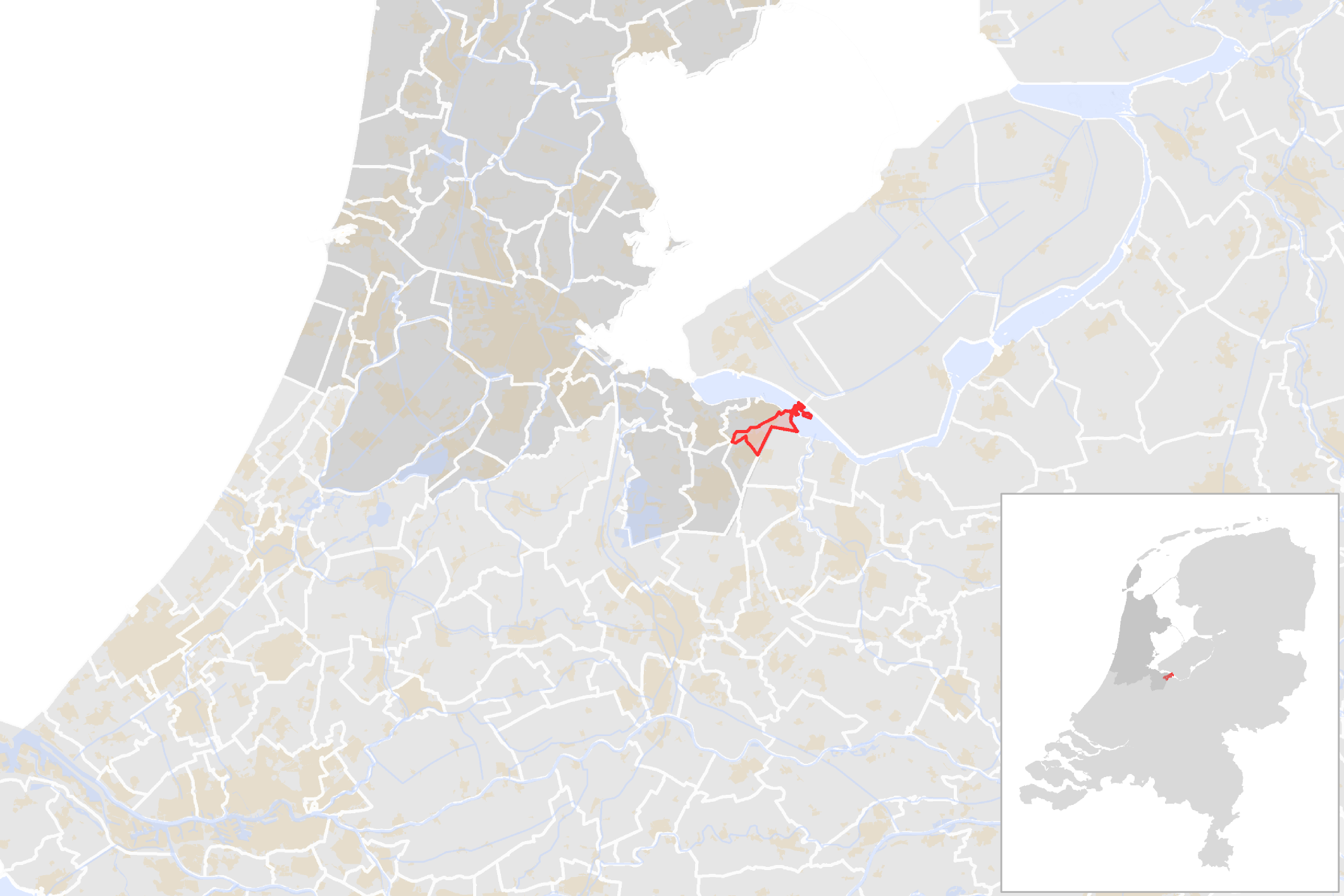 Locator map showing municipality boundary of one of the 390 Dutch municipalities (as of 2016)